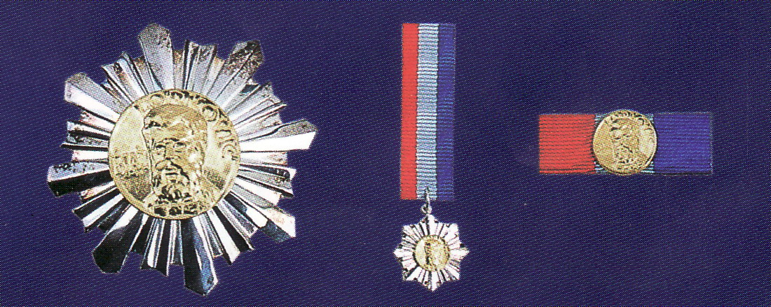 Badge and Ribbon of Order of Danica Hrvatska with the face of Blaž lorković